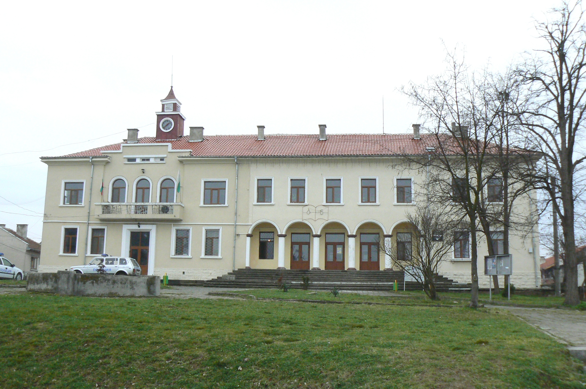 Chitalishte "Probuda" in the town of Sredets, Burgas district, Bulgaria.